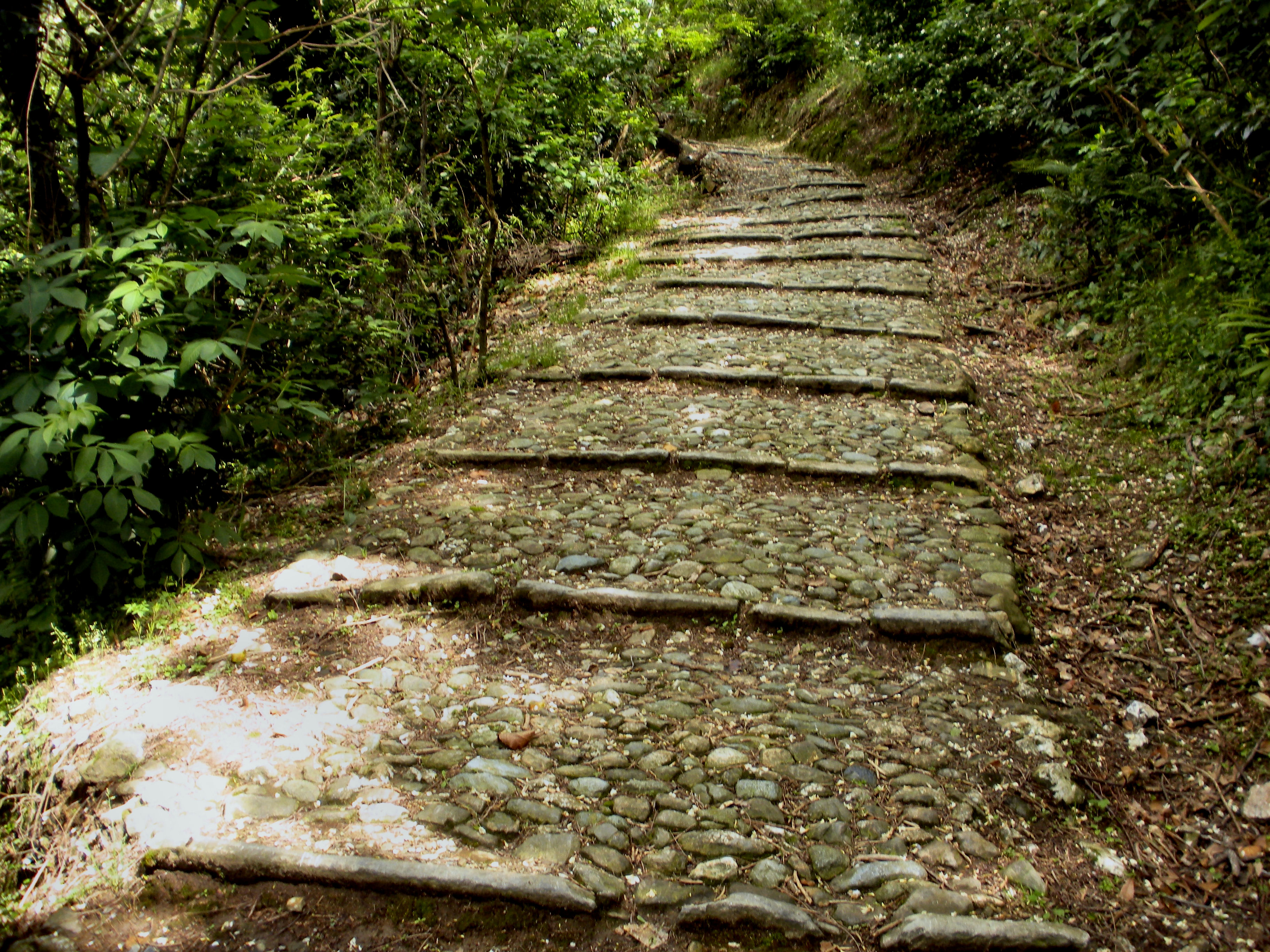 Genoa (Italy), quarter of Bolzaneto, old muletrack to Brasile